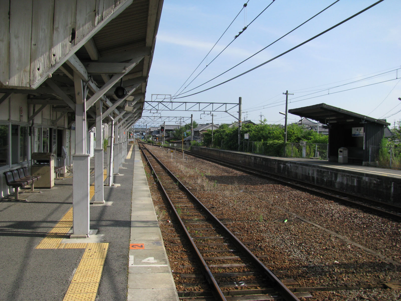 West Japan Railway Company, Sakurai Line, Ichinomoto Station.